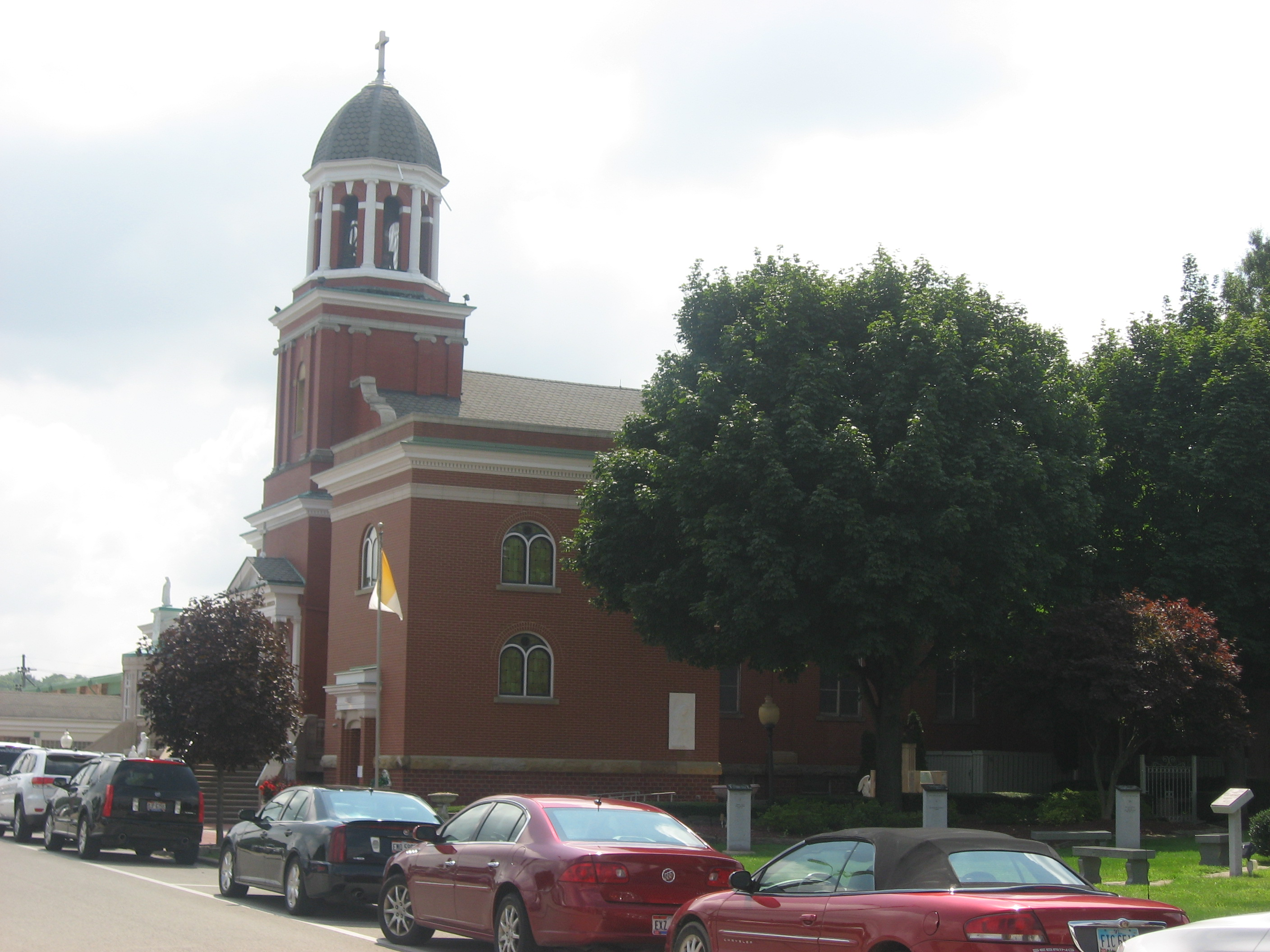 Western side and front of Our Lady of Mount Carmel Church, located at 343 Via Mount Carmel Avenue in Youngstown, Ohio, United States. Built in 1913, it is listed on the National Register of Historic Places.